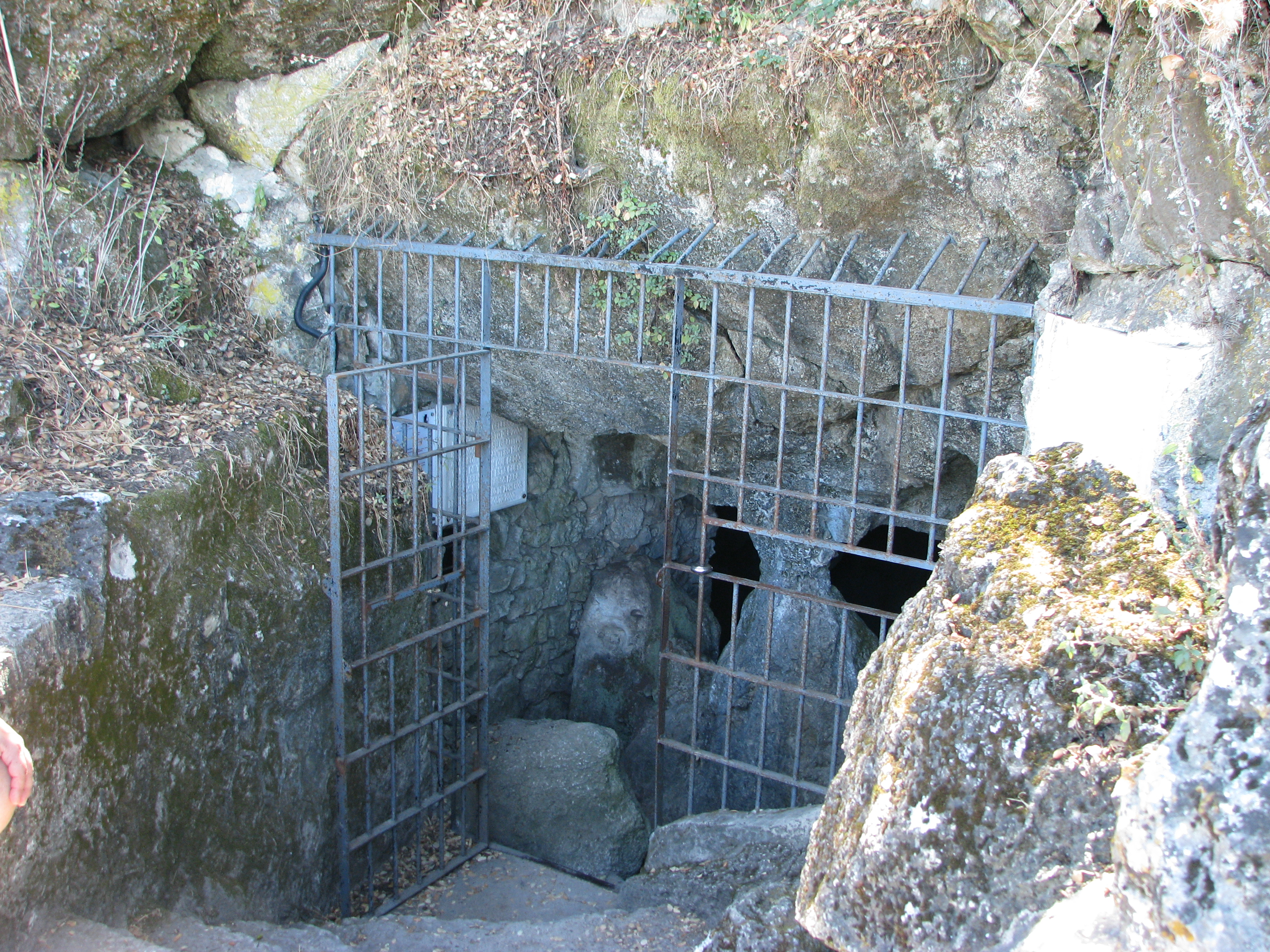 Cueva de los Murciélagos ; Upper access to the cave